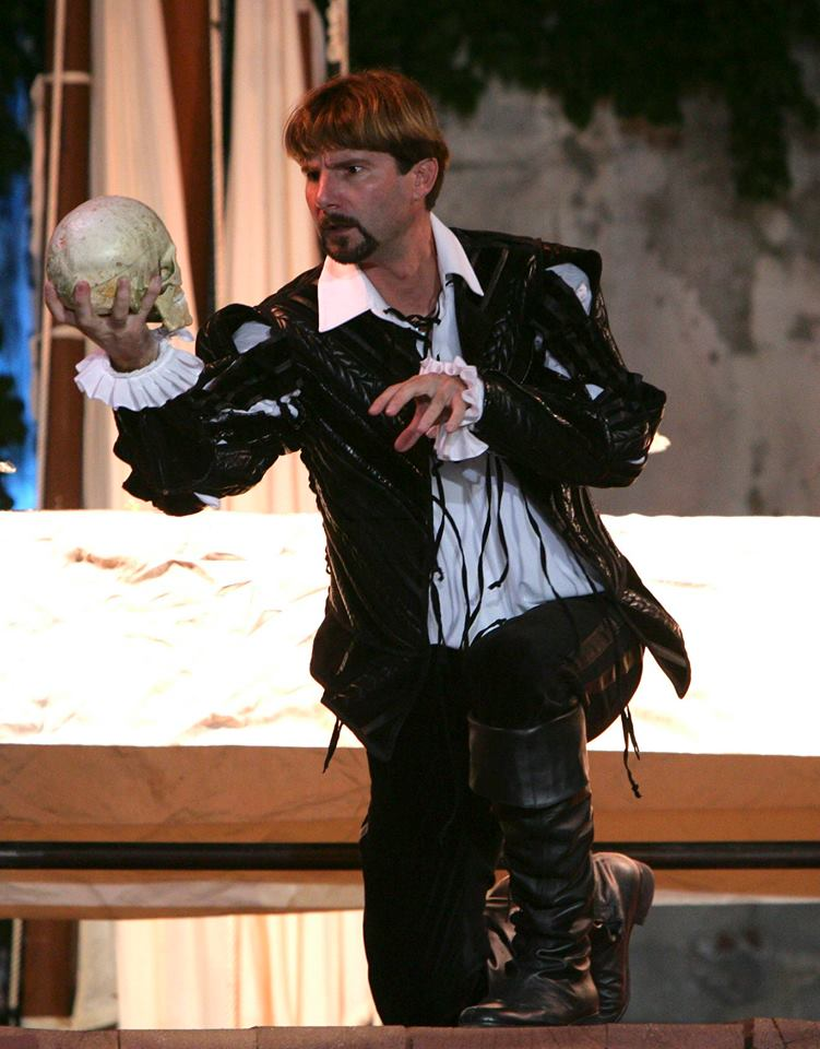 Josip Zovko in a theatrical performance: Tom Stoppard ROSENKRANTZ and GUILDENSTERN ALL ARE DEATH (Hamlet), 2006.Foto: Matko Biljak